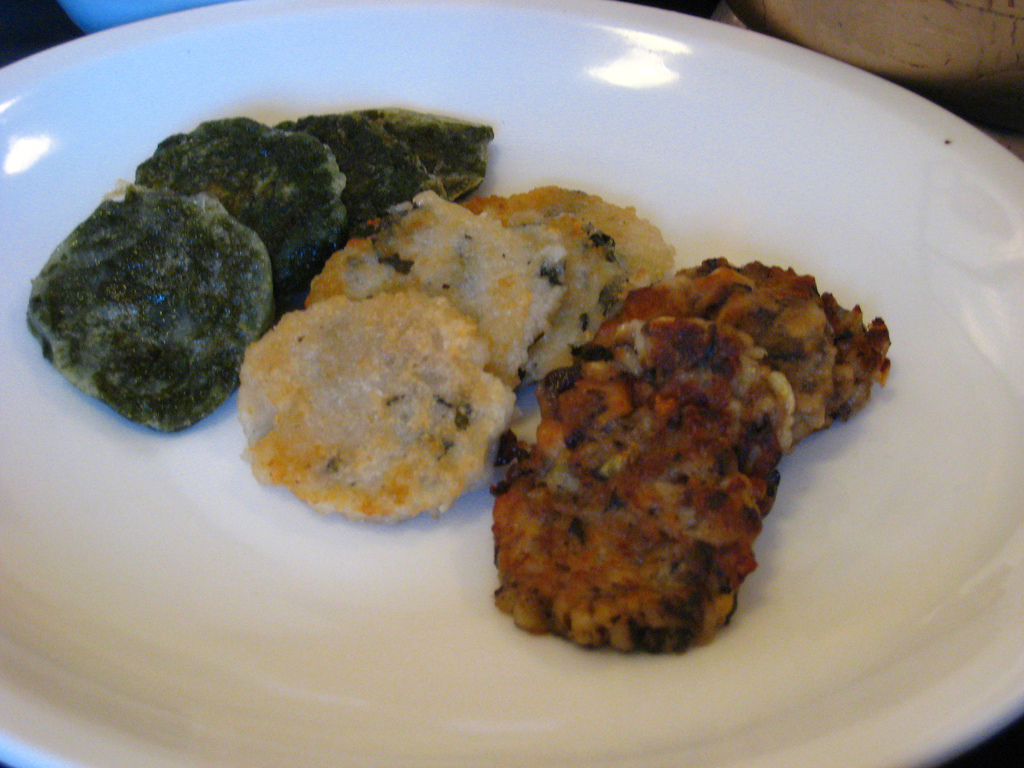 Samsaek jeon (삼색전), literally three different type and colored jeon (pancake-like dishes) in Korean cuisine